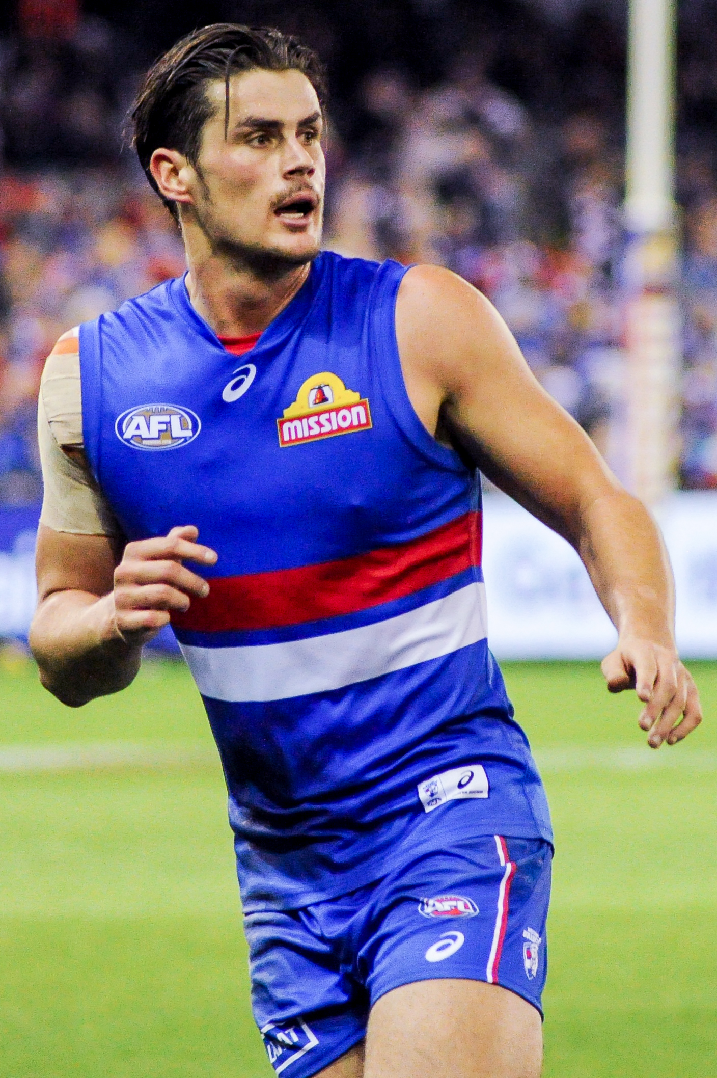 Tom Boyd during the AFL round thirteen match between the Western Bulldogs and Melbourne on 18 June 2017 at Etihad Stadium in Melbourne, Victoria.